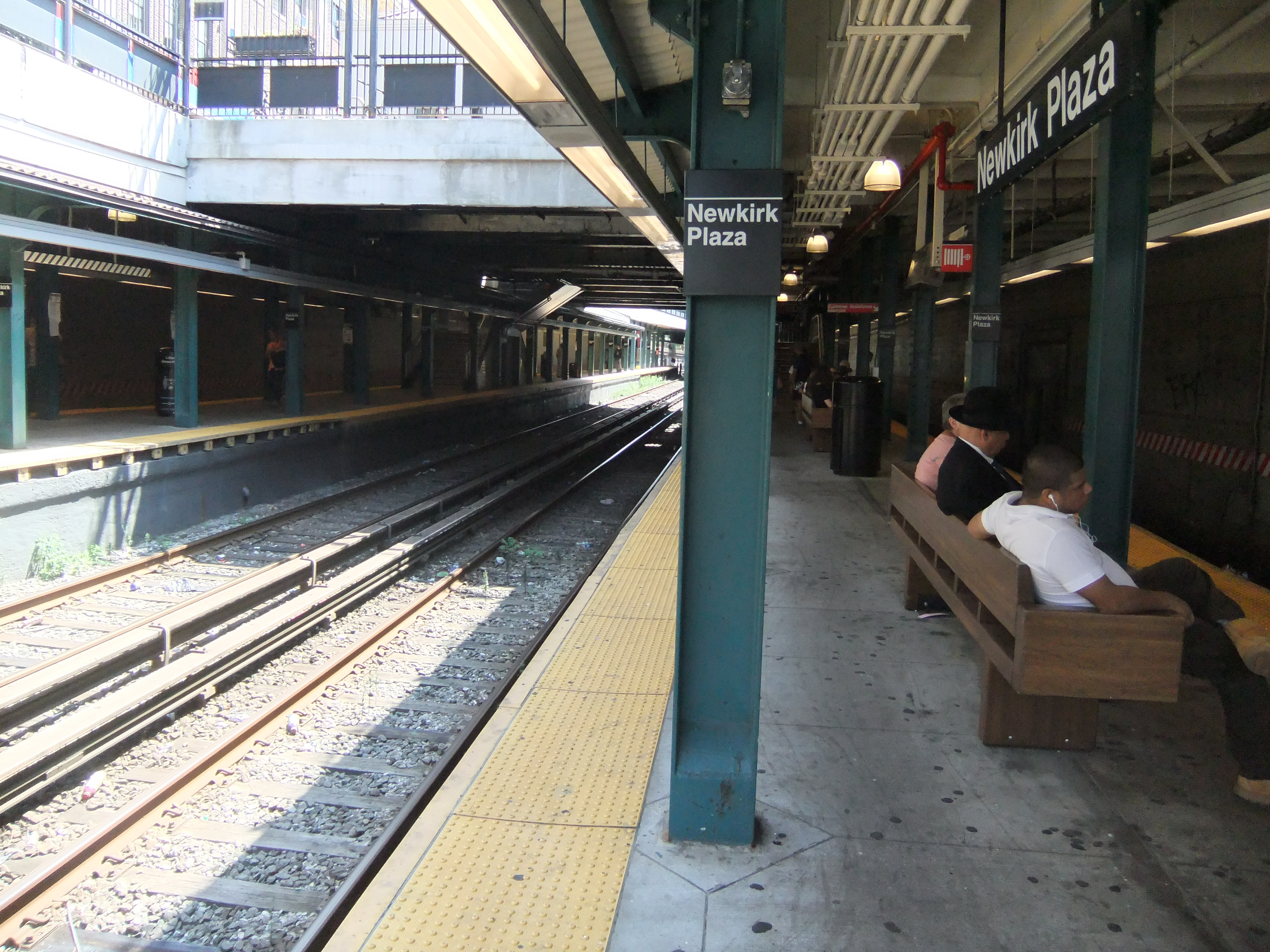 Platform at the Newkirk Plaza station.